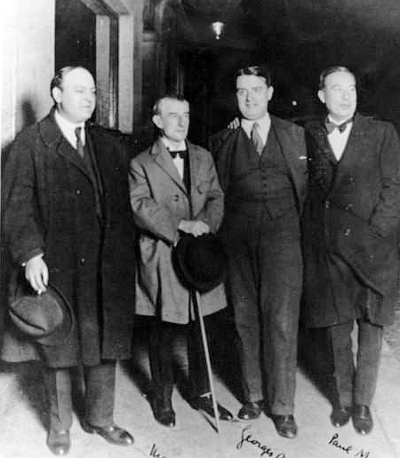 From left to right: Léon-Paul Fargue (1876-1947), Maurice Ravel (1875-1937), Georges Auric (1899-1983), Paul Morand (1888-1976).